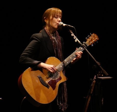 Suzanne Vega performing at the Lebanon Opera House in Lebanon, New Hampshire.